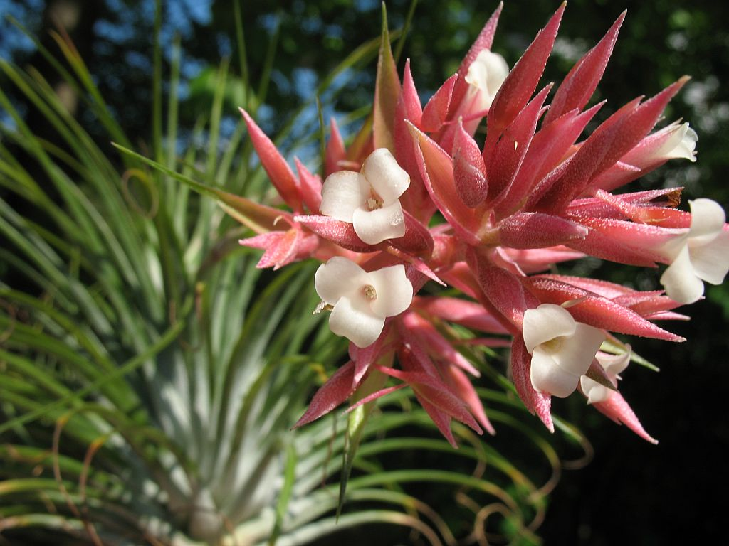 Tillandsia globosa var. alba, in cultivation at the Botanical Garden of Heidelberg, Germany.